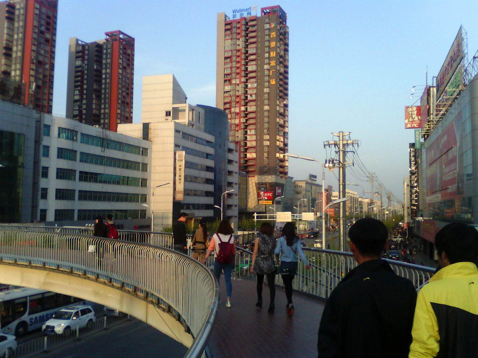 Walkway in the downtown area of Fuyang city, Anhui province, China.